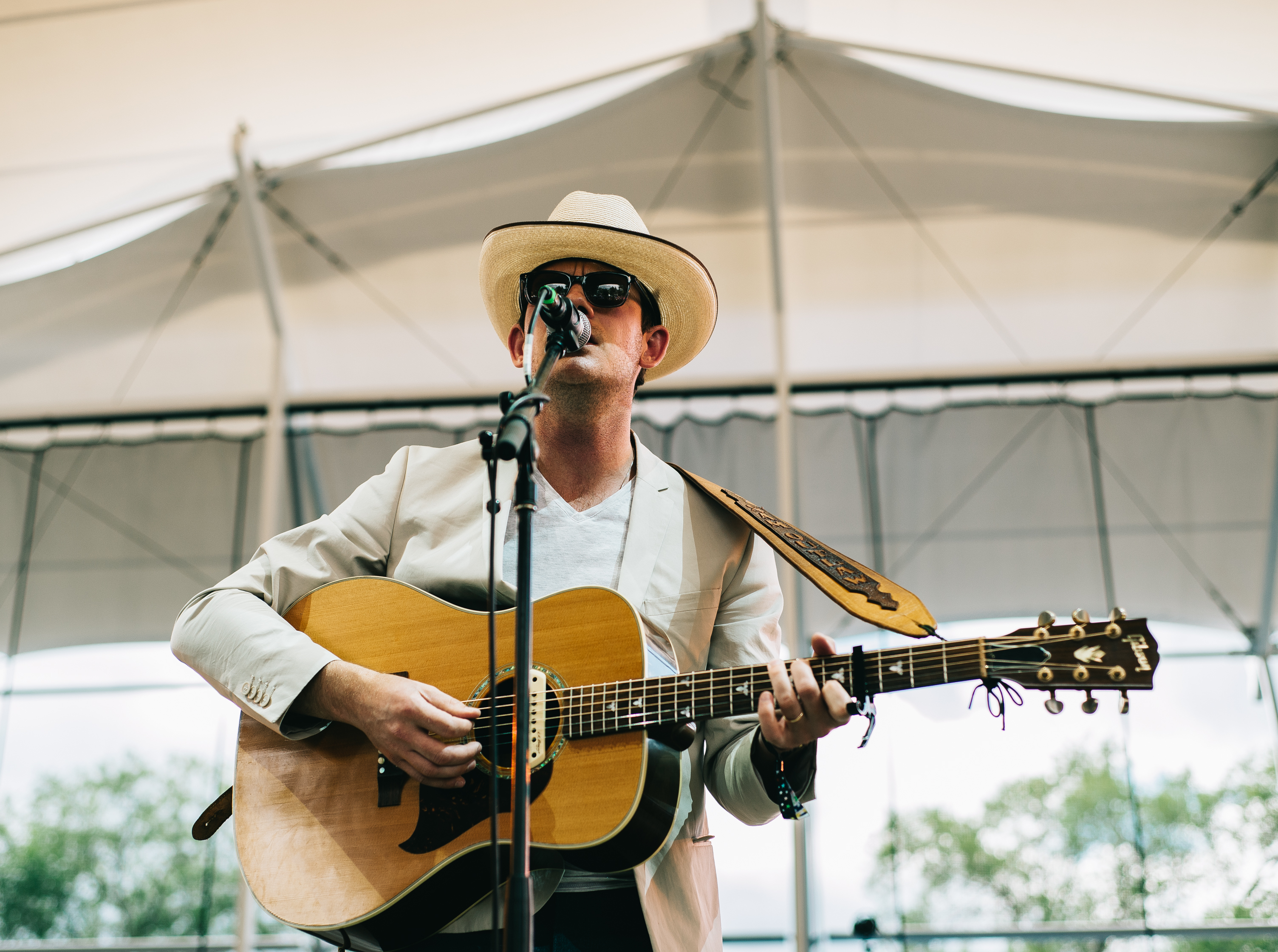 Sam Outlaw